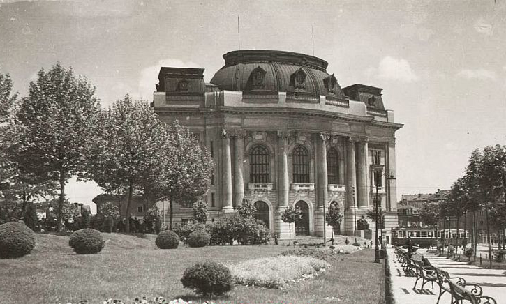 The Central building of the Sofia University